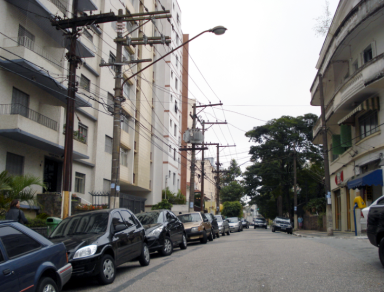 R. Cons. Moreira de Barros (street), Santana - São Paulo,SP,Brazil.